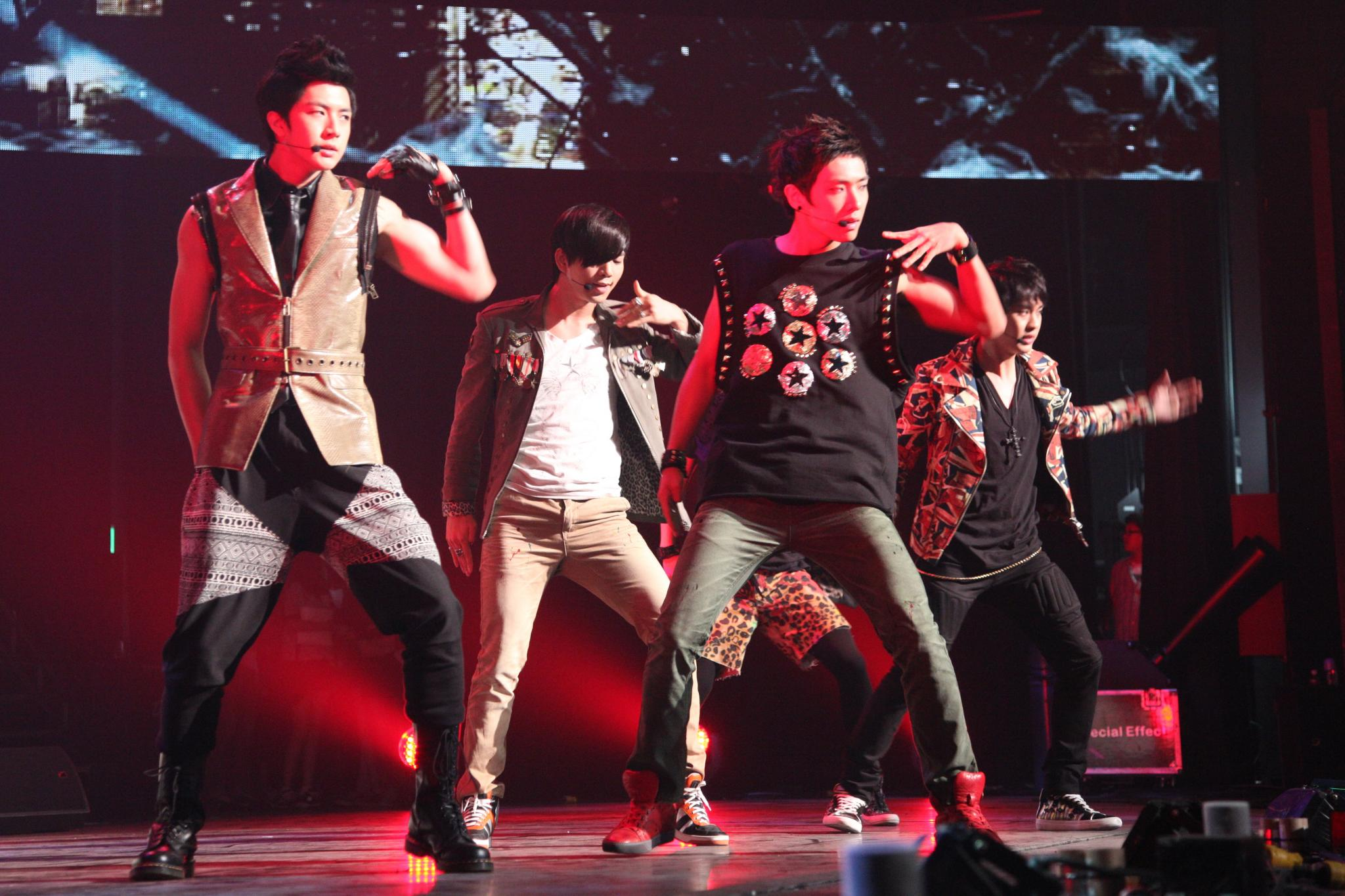 South Korean boy band MBLAQ performing at the Cyworld Dream Music Festival on July 23, 2011.